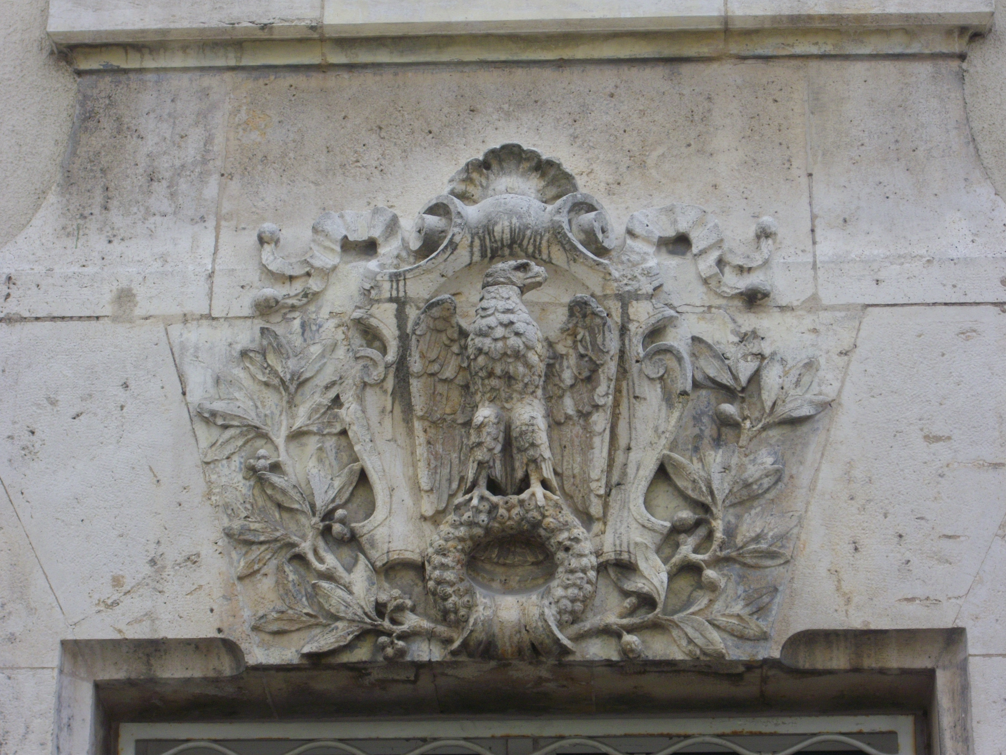 Prefecture of Loiret, Orléans (Loiret, France) : relief of an eagle on the Bourgogne street facade .